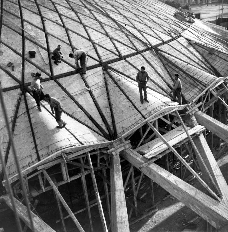 Construction of the concrete roof of Palazzetto dello Sport in Rome, a sports venue built for the 1960 Summer Olympics by the architect Annibale Vitellozzi and the engineer Pier Luigi Nervi.